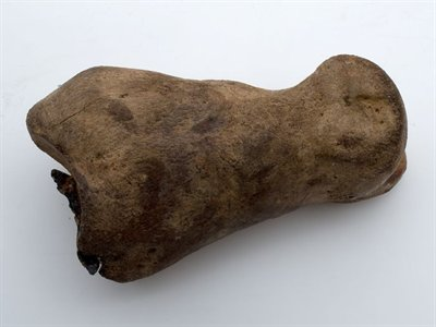 Werpkoot, lead-filled, from Museum Rotterdam